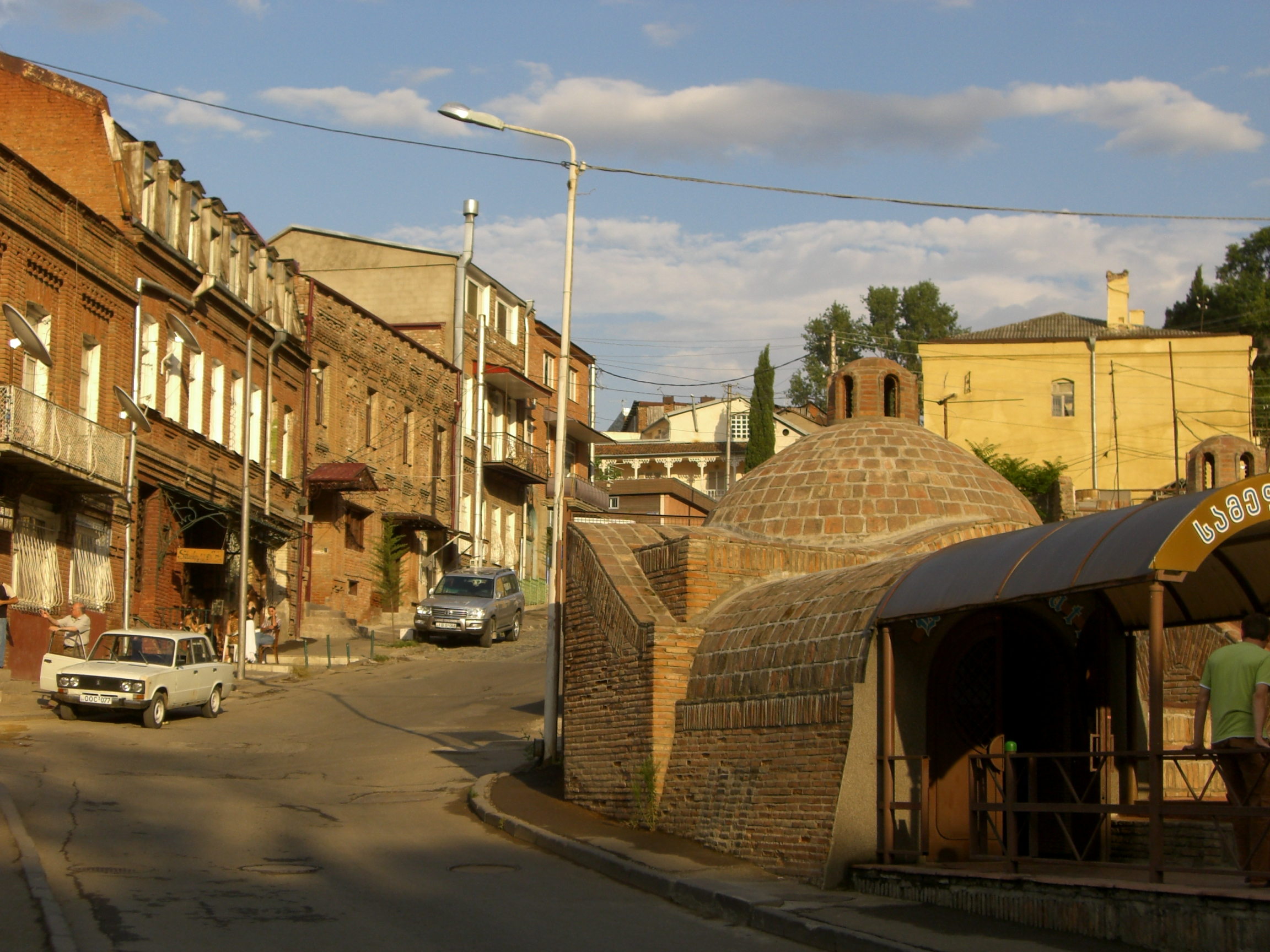 Old Tbilisi